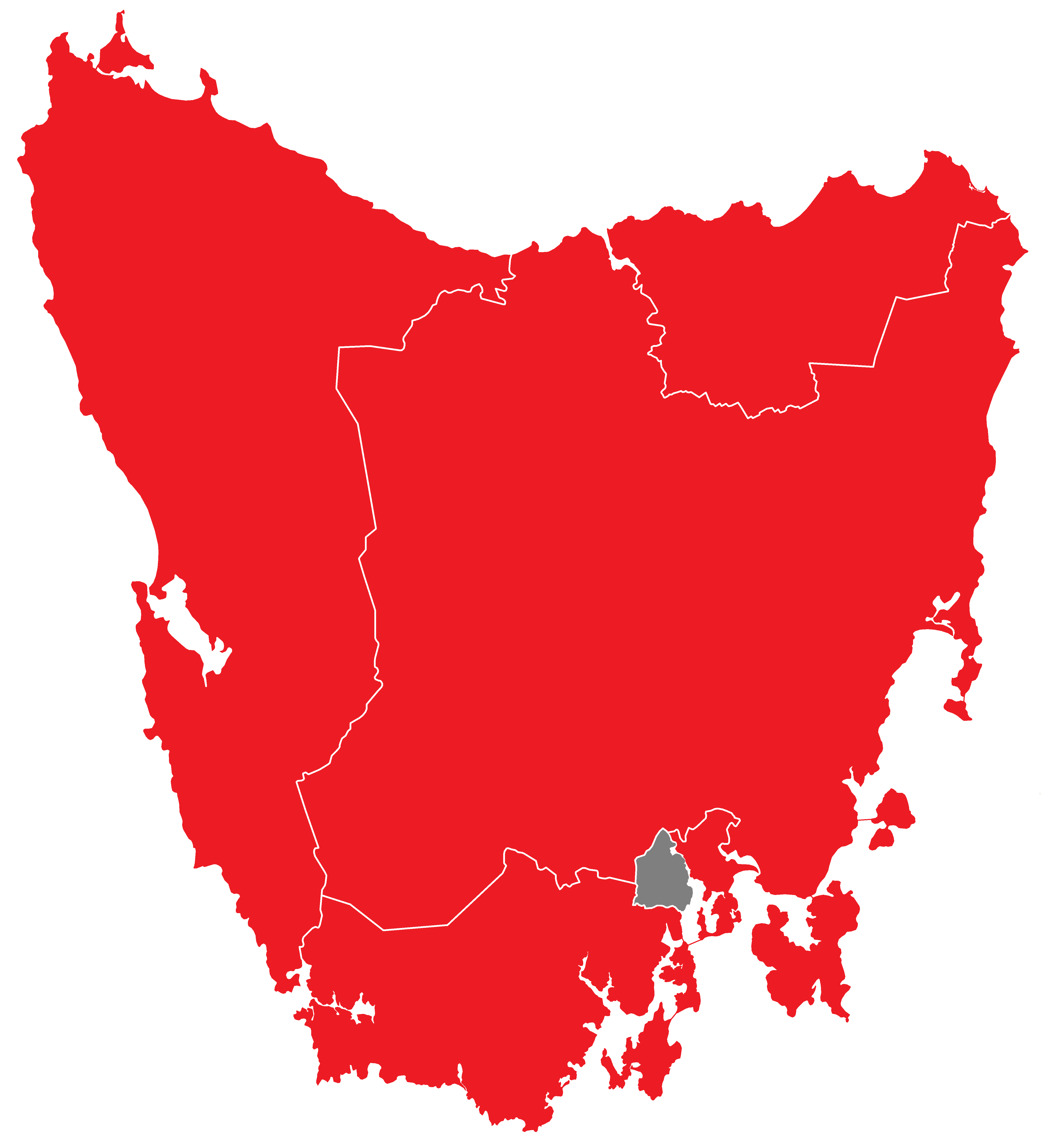 Results map of the Australian federal election, 2016 in Tasmania, showing federal electorates decorated in the color representing a win by a particular party.